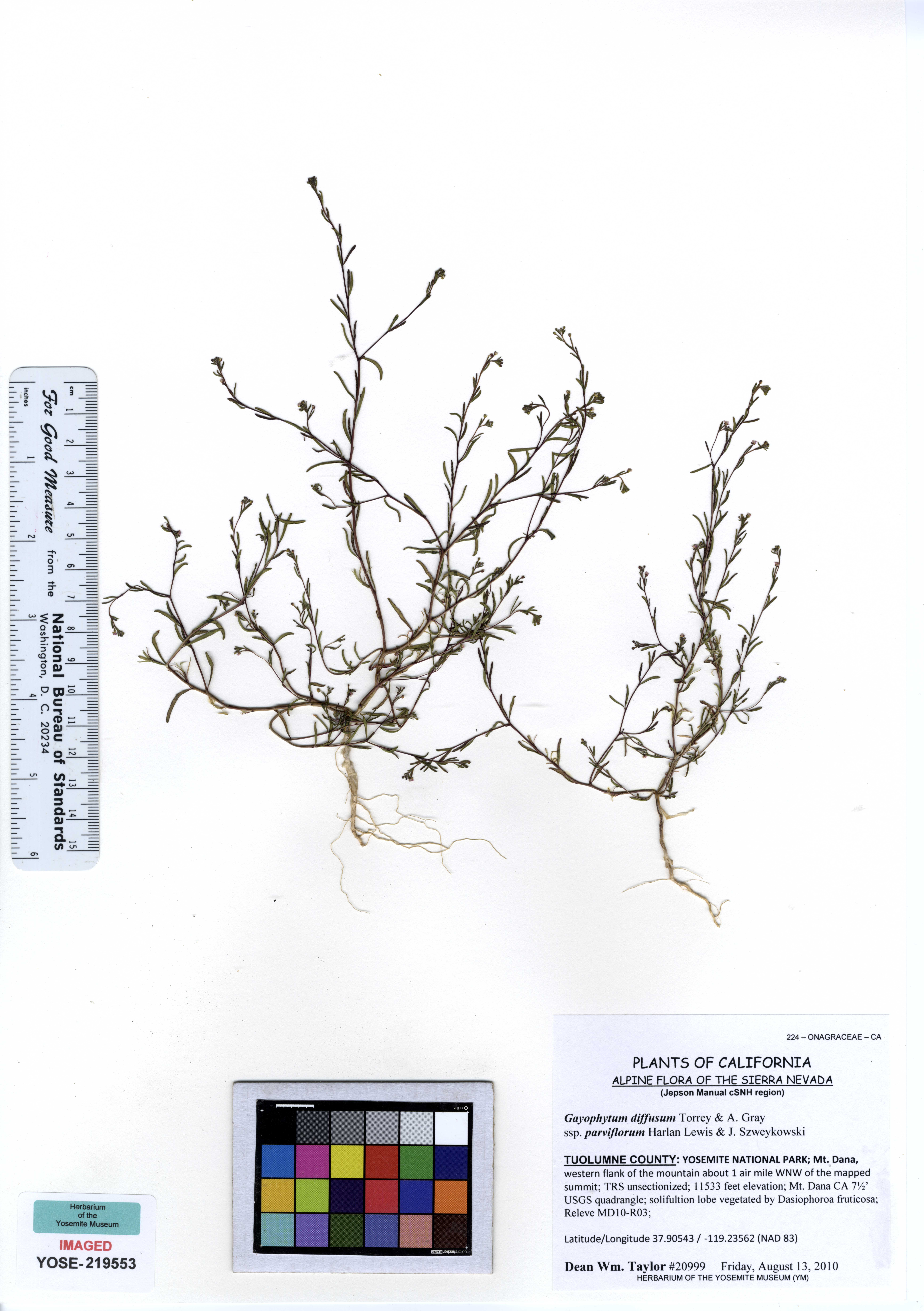 Gayophytum diffusum ssp. parviflorum